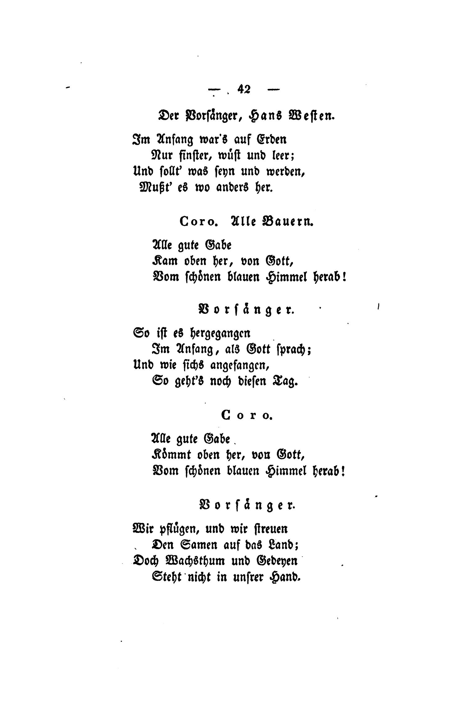 This is a scan of the historical document: ASMUS omnia sua SECUM portans oder sämmtliche Werke des Wandsbecker Bothen Volltext bei de.wikisource: ASMUS omnia sua SECUM portans oder sämmtliche Werke des Wandsbecker Bothen